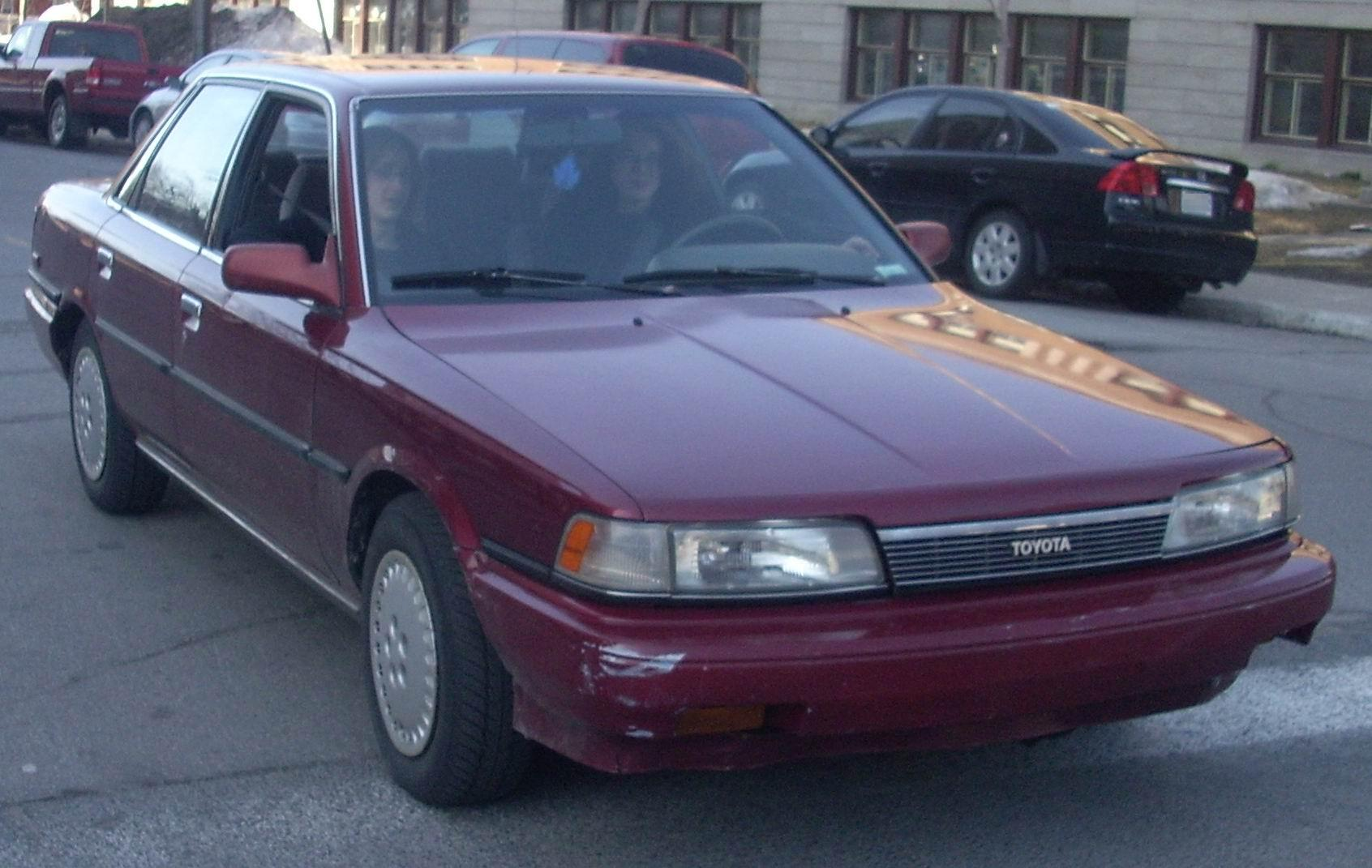 1987-1990 Toyota Camry photographed in Montreal, Quebec, Canada.